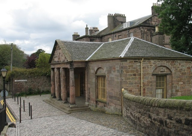 Guardhouse, Berwick-up-Tweed This Georgian military guardhouse (to the adjacent barracks) dates from 1682; it was moved to its present position near the quayside in 1815.